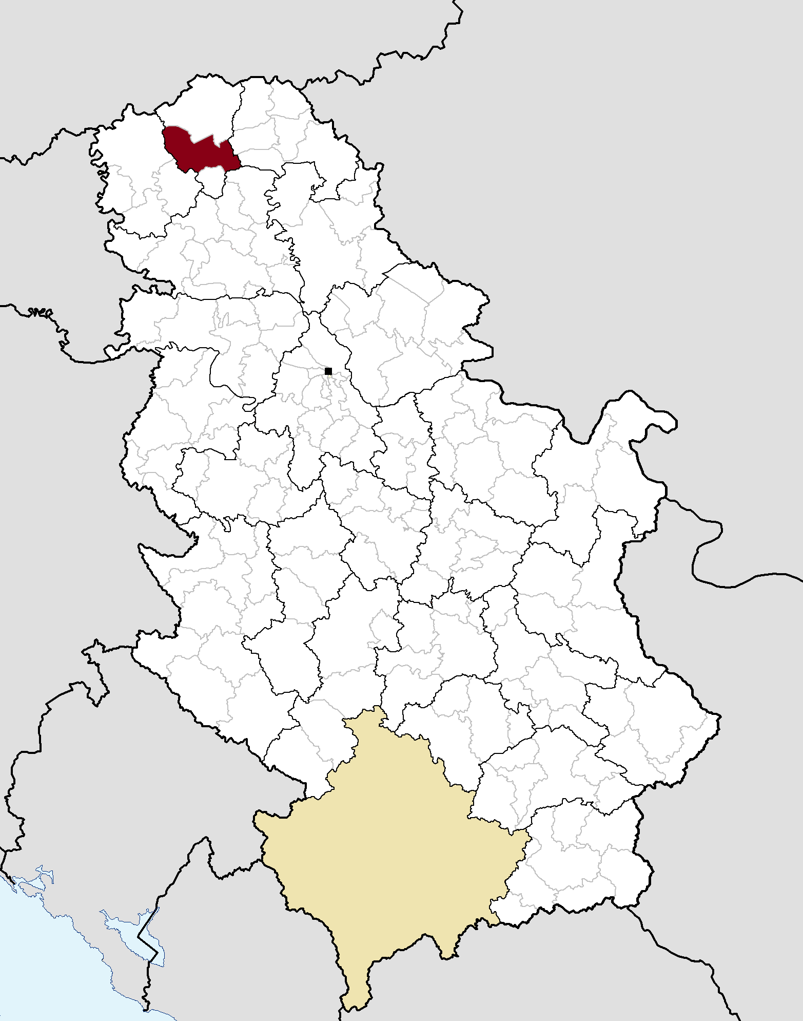 Municipal location in Serbia